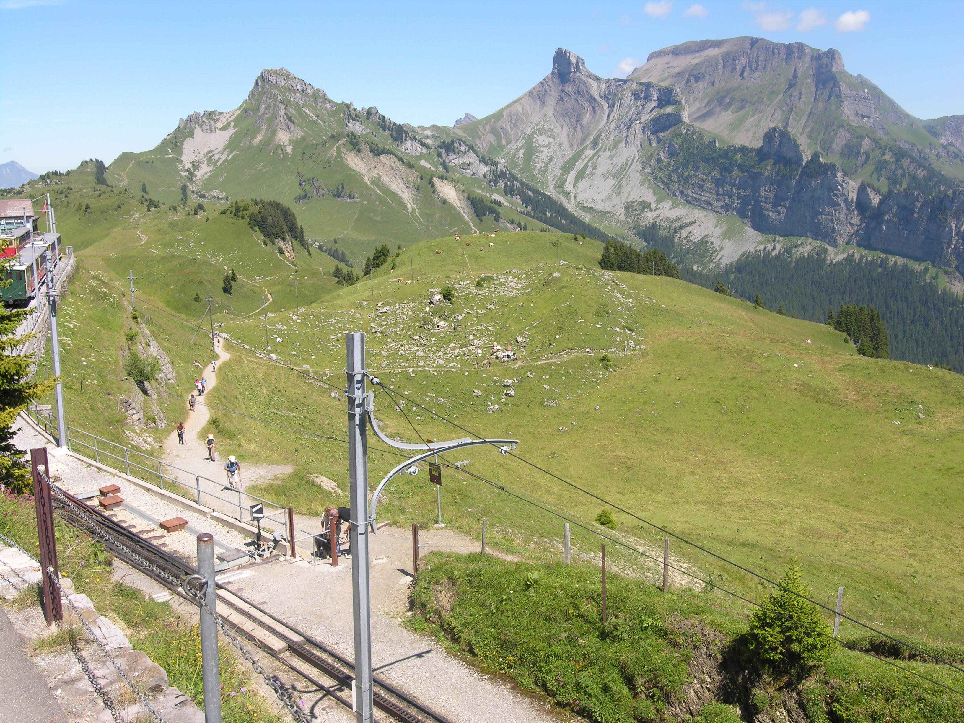 Schynige Platte near the railway station